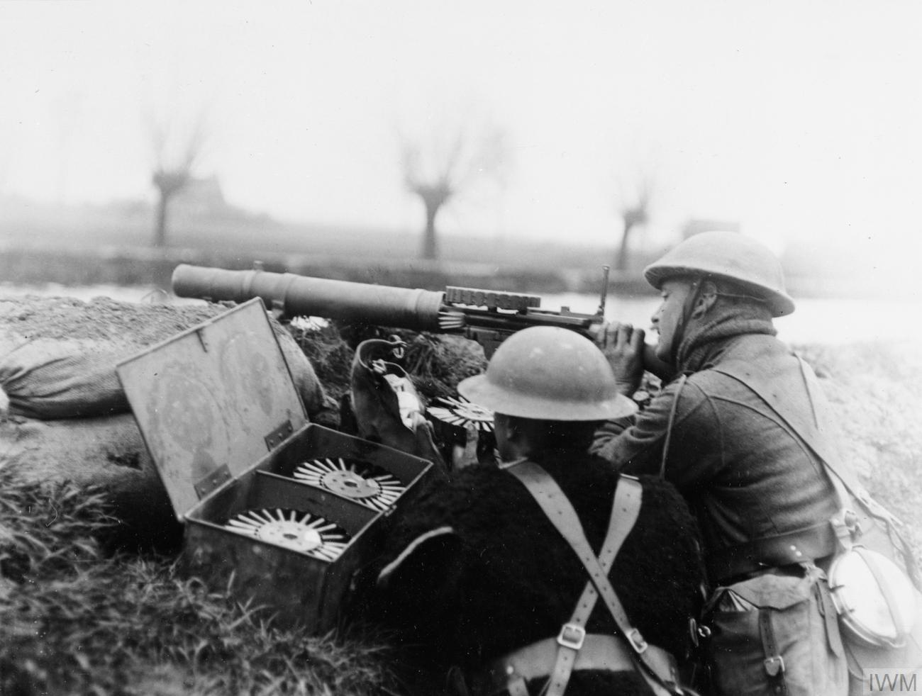 British Lewis gun team manning a post on the bank of the Lys canal at St Venant during the Battle of Hazebrouck.